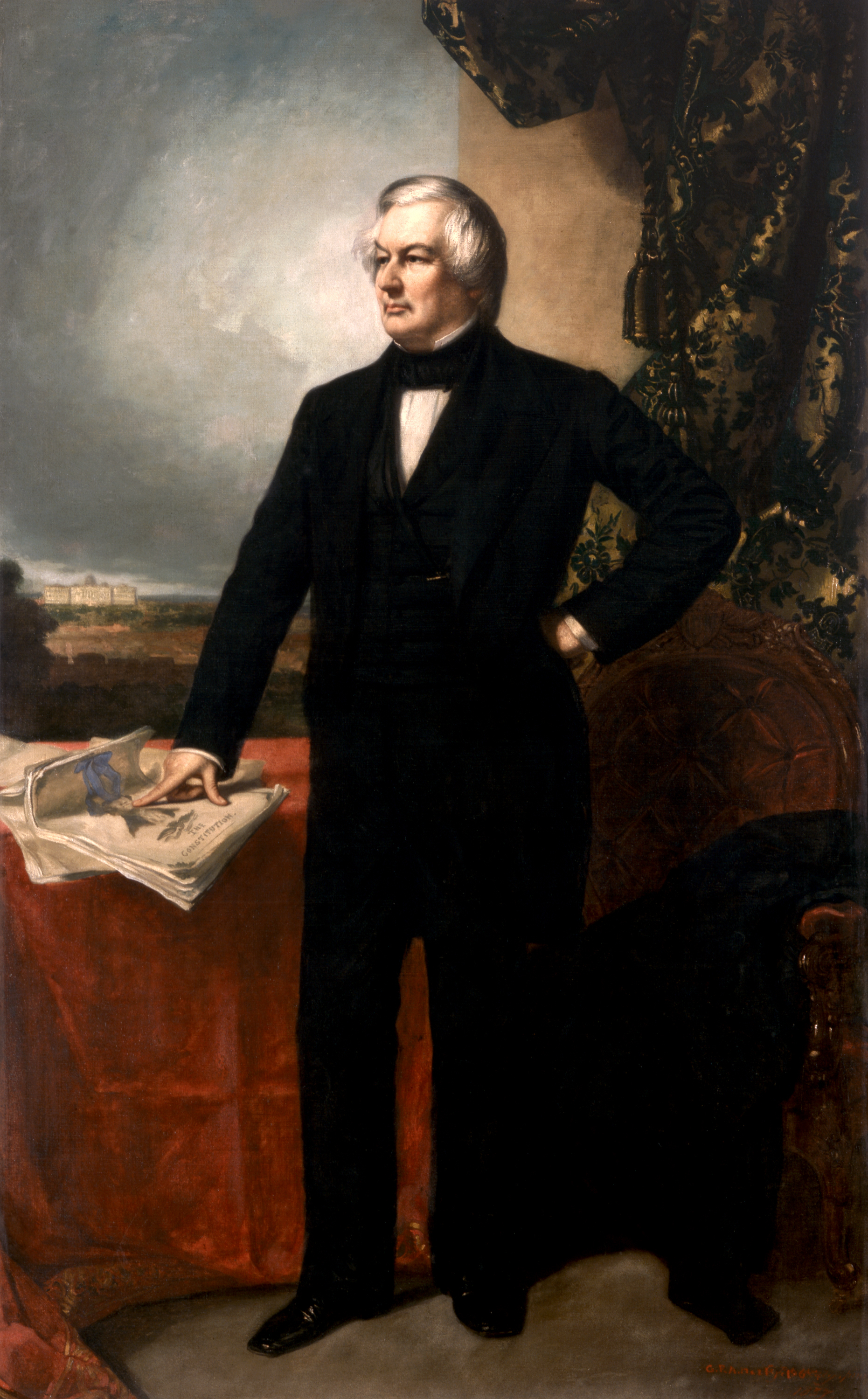 Official Presidential portrait of Millard Fillmore. Purchased by government 1858, equivalent to publication, see here